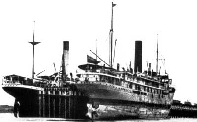 The steamer Koombana